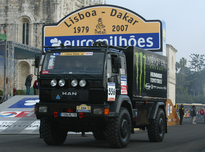 MAN Race Truck Class T4 for Team Dakar USA